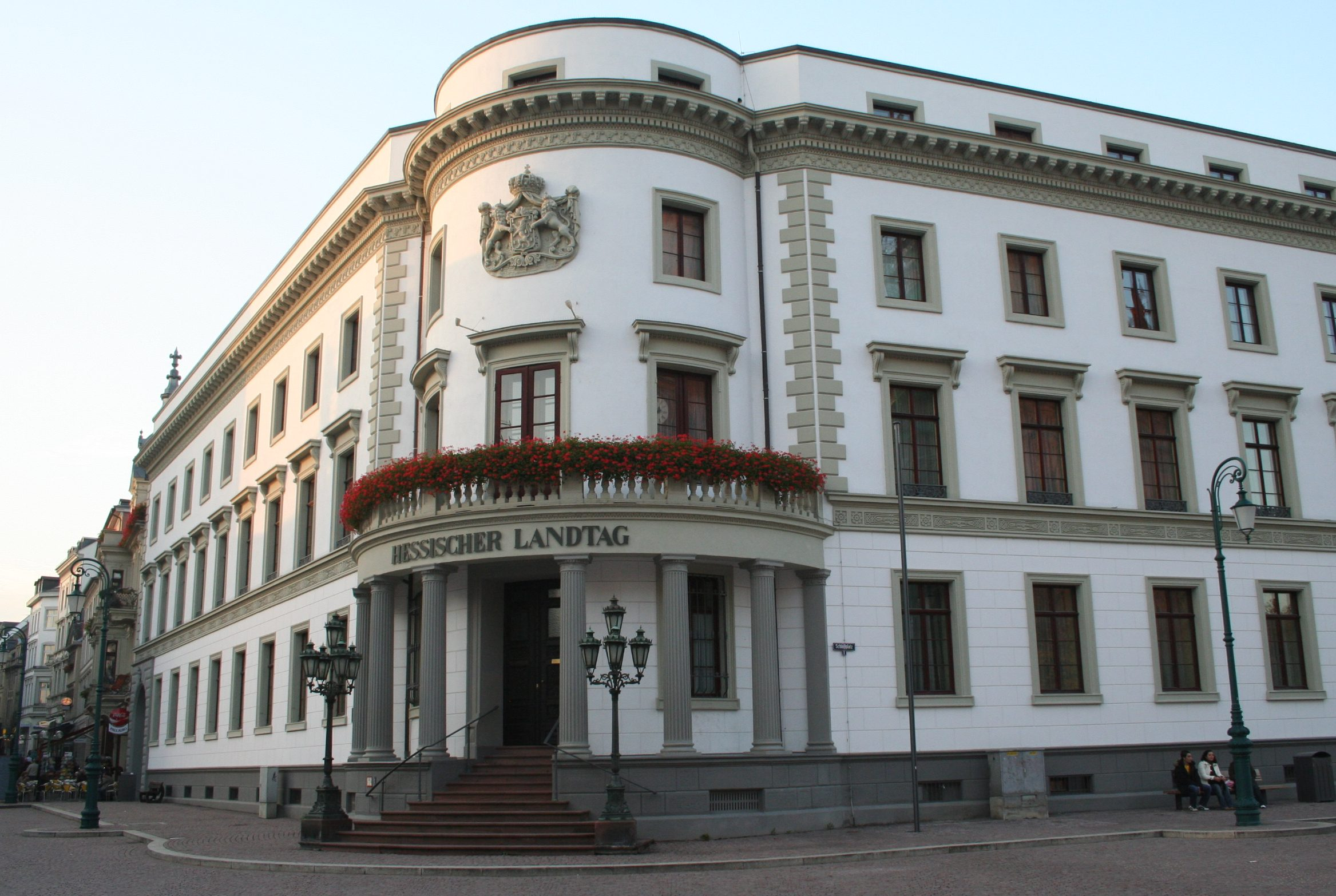 States Parliament of Hesse in Wiesbaden